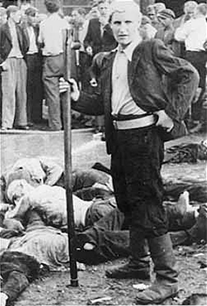 An alleged Lithuanian perpetrator (named the "Death Dealer") of the massacre of 68 Jews in the Lietukis garage of Kaunas (Lithuania)